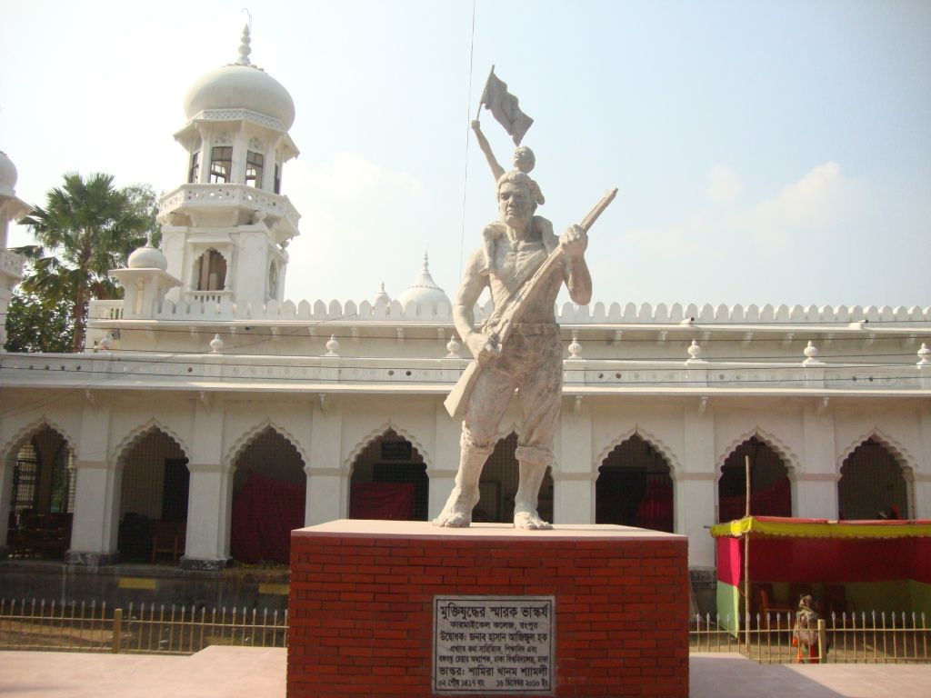 'Projonmo', A monument highlighting the freedom fight of Bangladesh in 1971. Located at the campus of Carmichel College, Rangpur, Bangladesh.